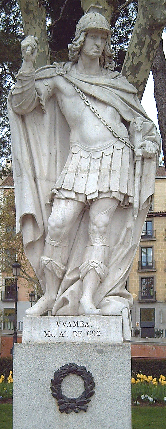 Statue of Wamba († 688) at the Plaza de Oriente (square) in Madrid (Spain). Sculpted in white stone by Alejandro Carnicero (1693–1756) between 1750 and 1753.